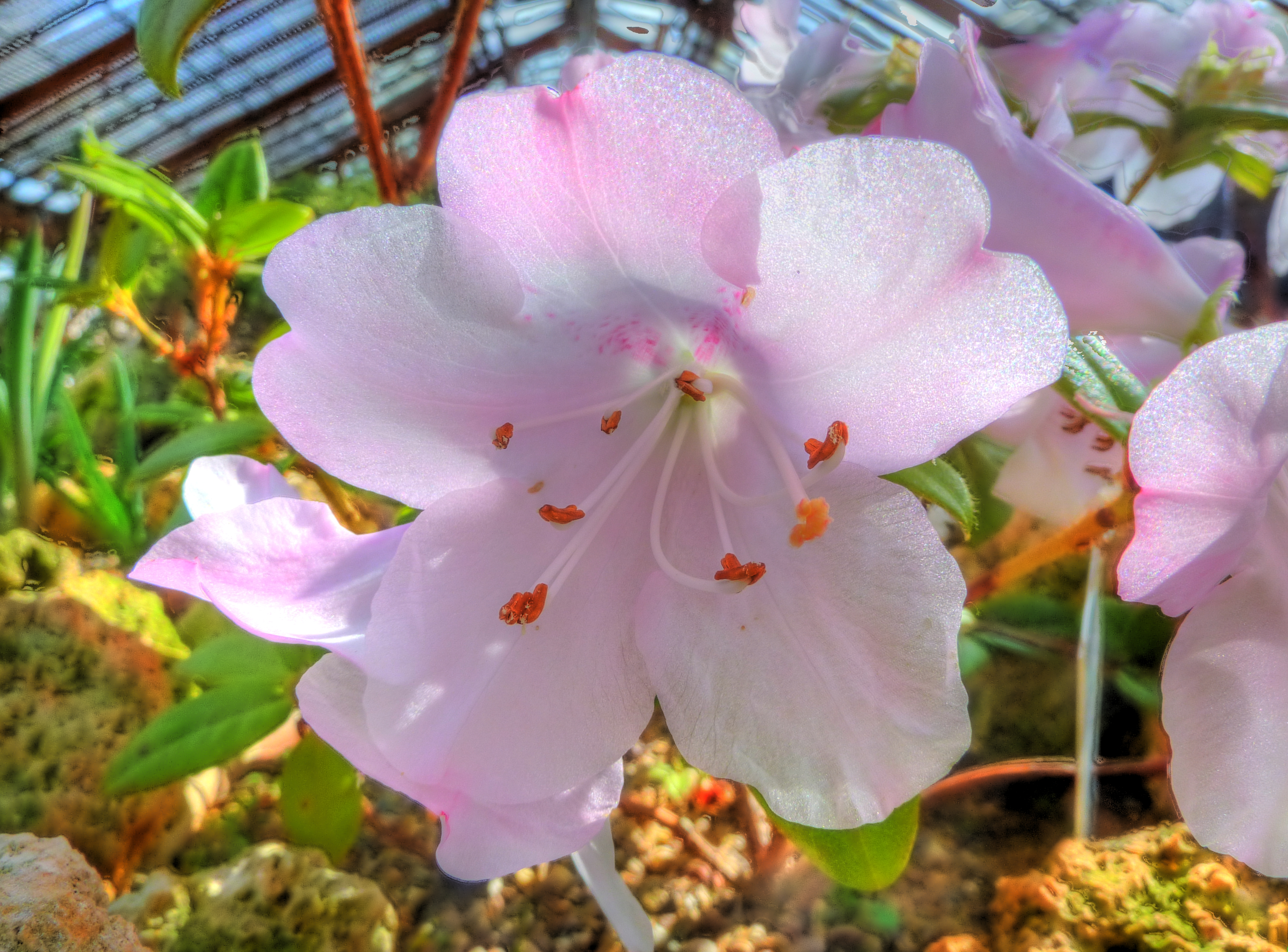 Taken in the Cambridge University Botanic Garden.